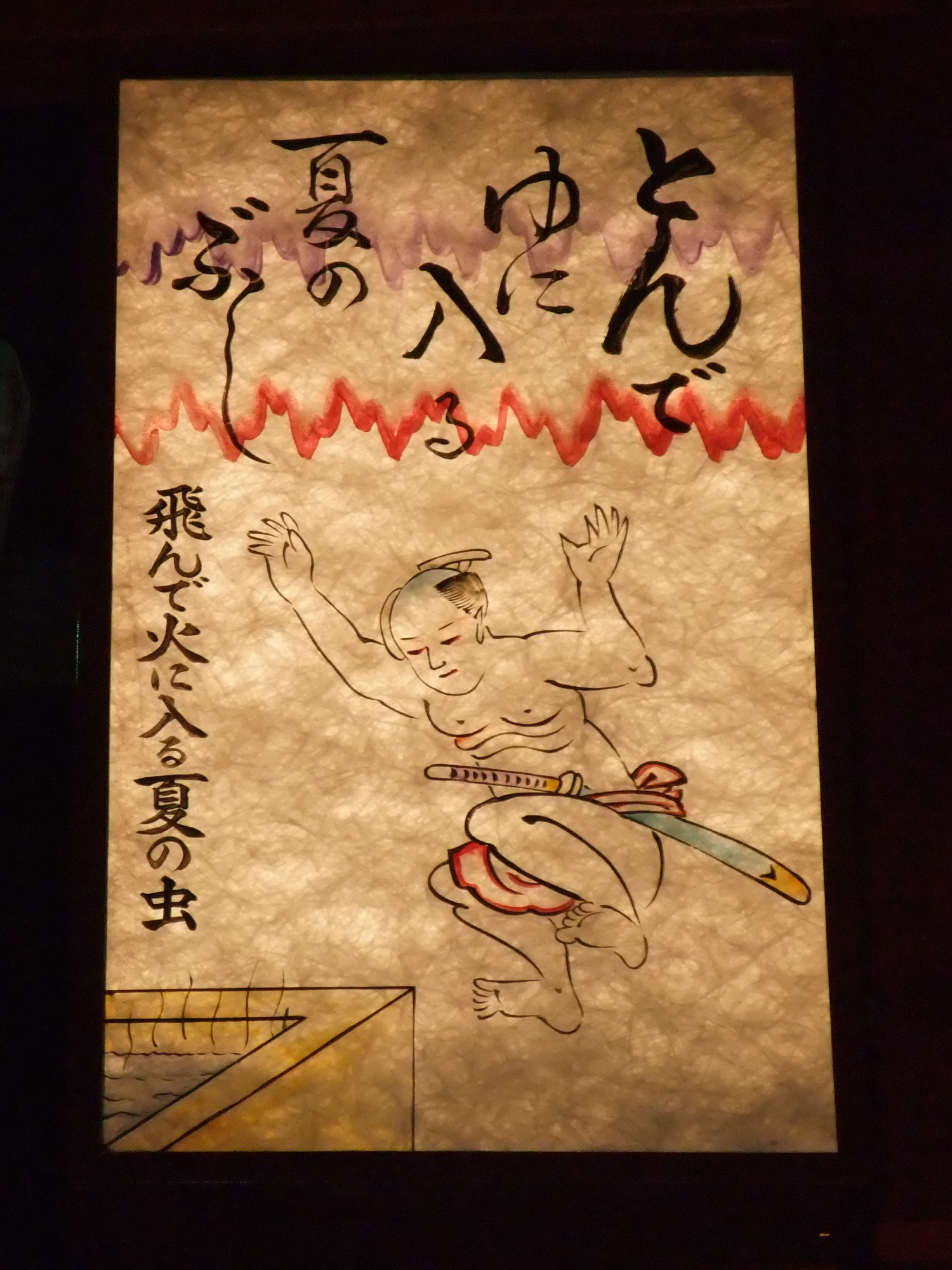 "Ziguchi Andon", a streetlamp on the Denbōin-dōri street at Sensō-ji